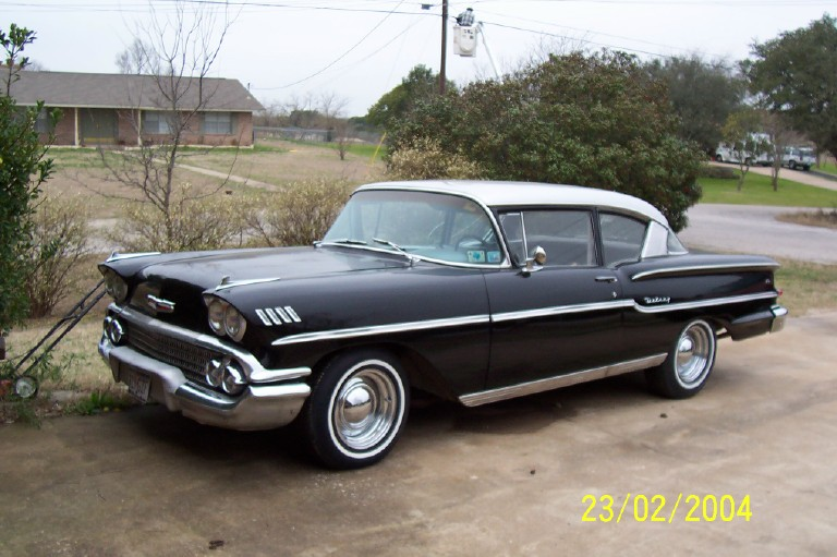 My 1958 Chevrolet Impala.